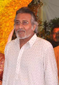 Kavita Khanna, Vinod Khanna at Esha Deol's wedding at ISCKON temple